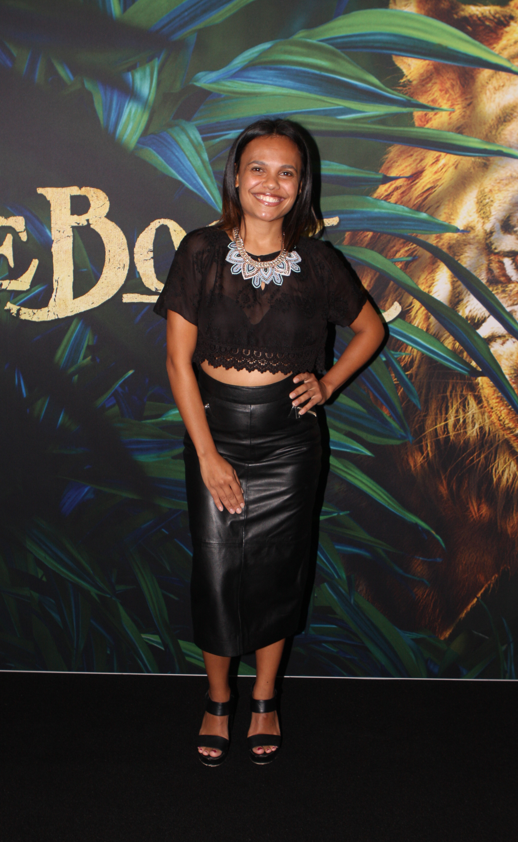 Miranda Tapsell at The Jungle Book premier in Sydney